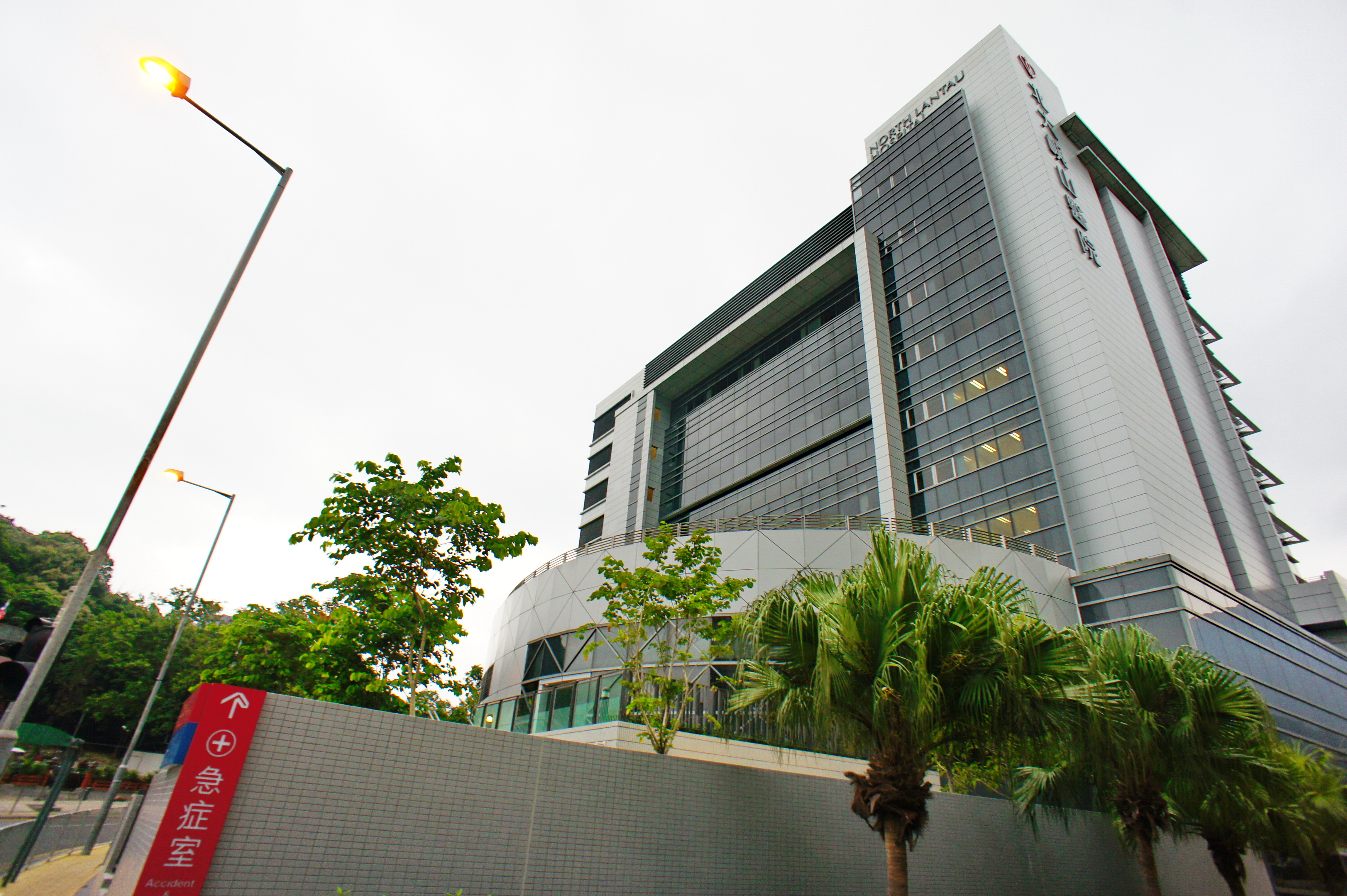 The north west corner of the North Lantau Hospital, Tung Chung, Hong Kong. Chui Kwan Drive is on the left.